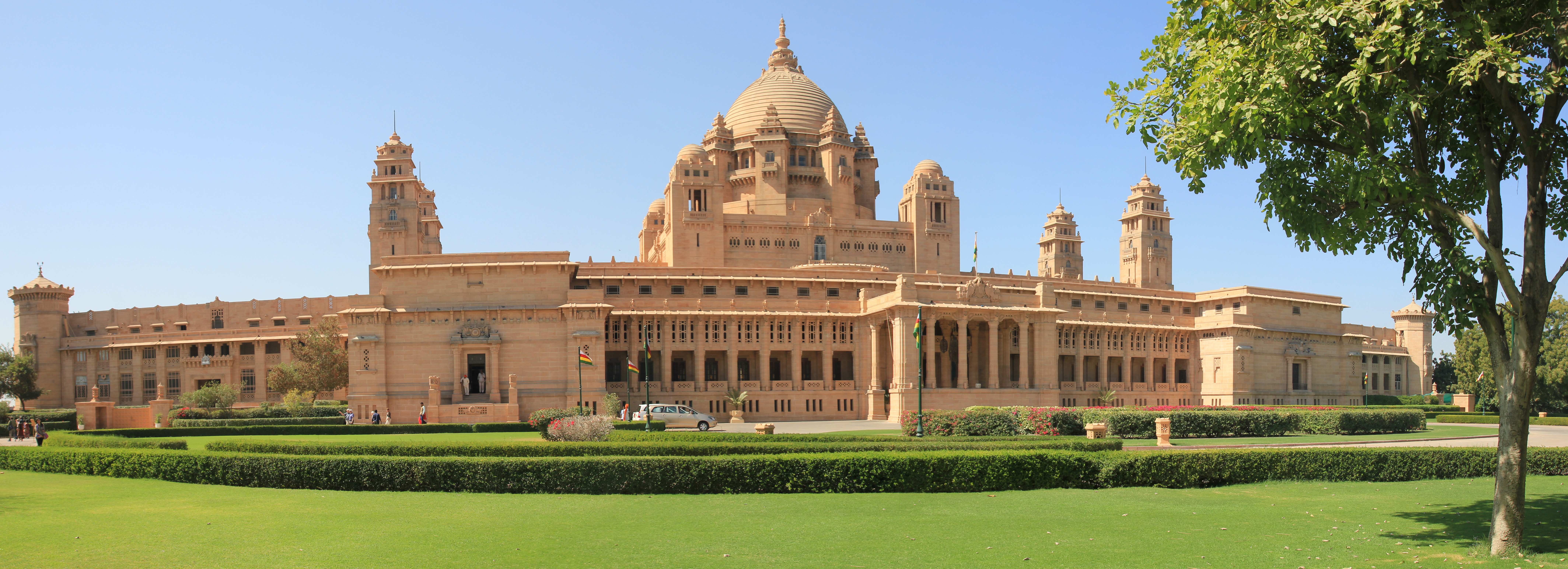 Umaid Bhawan Palace